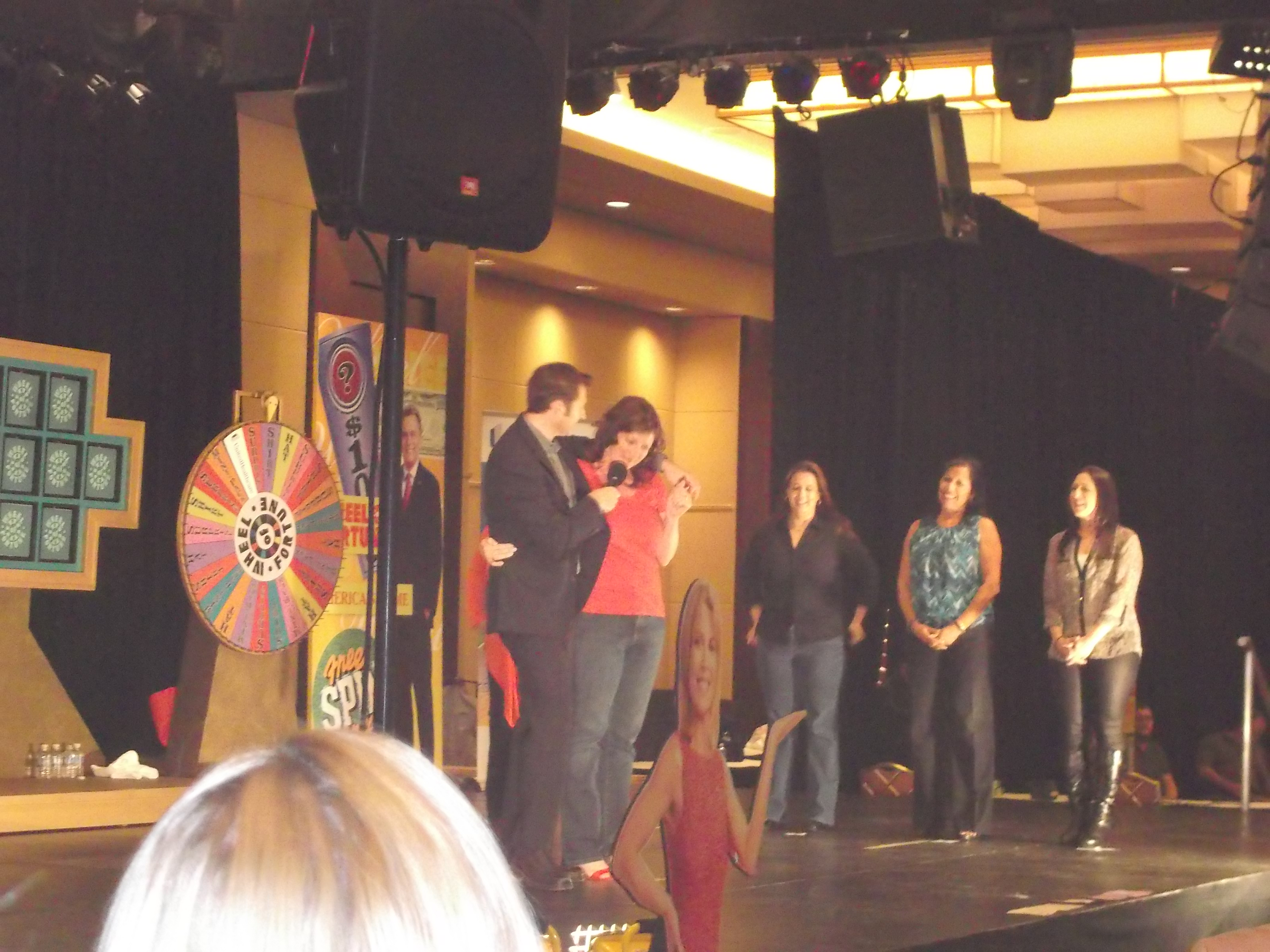 Wheel of Fortune auditions, Morongo Casino